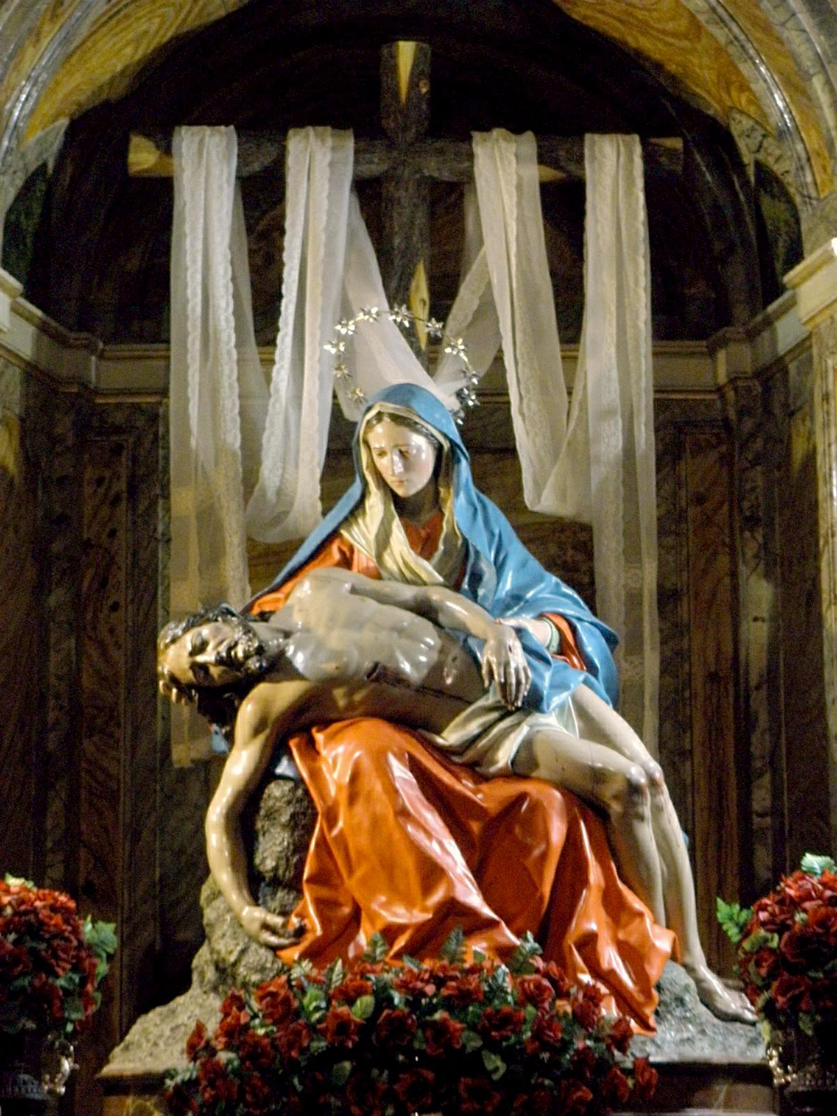 Pietà, by Luis Salvador Carmona, Salamanca (España)